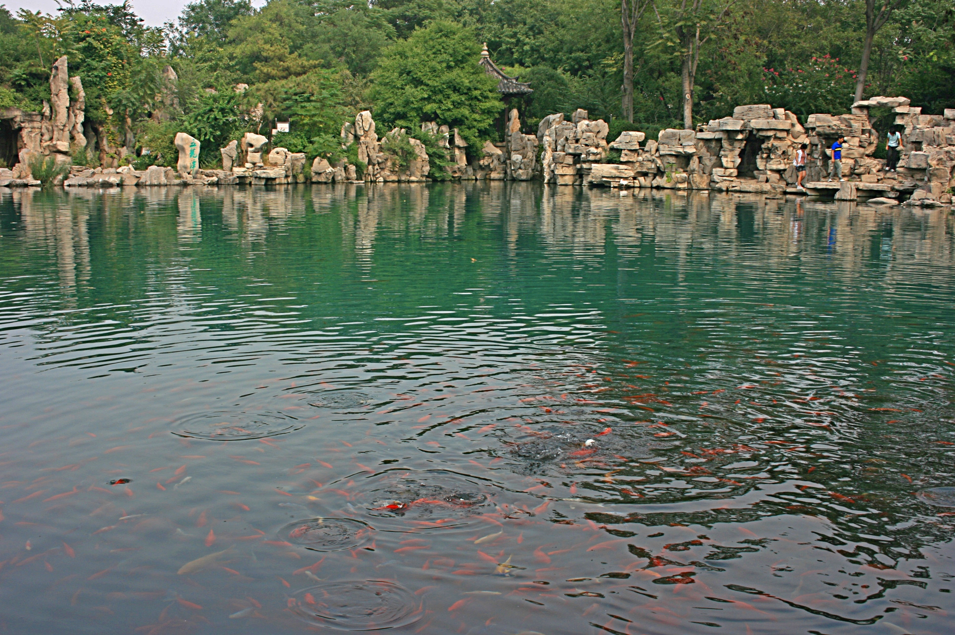 Photograph of the Five Dragon Pool in Jinan, Shandong Province, China.